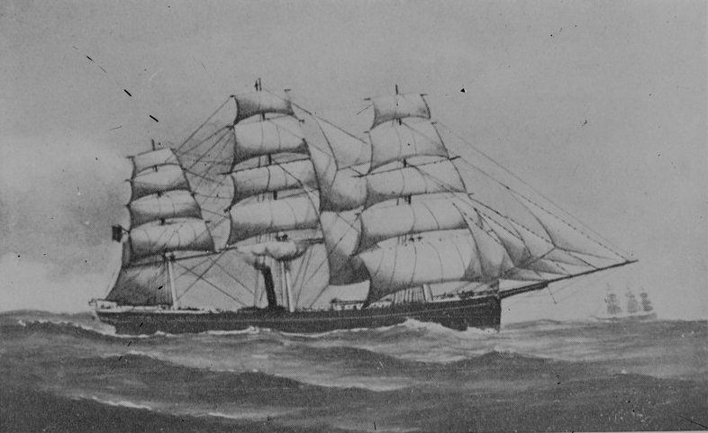 Money, Wigram & Co's auxiliary ship, London. 2500 tons. Built 1864. Foundered in the Bay of Biscay with about 230 souls, 11 January 1866 .